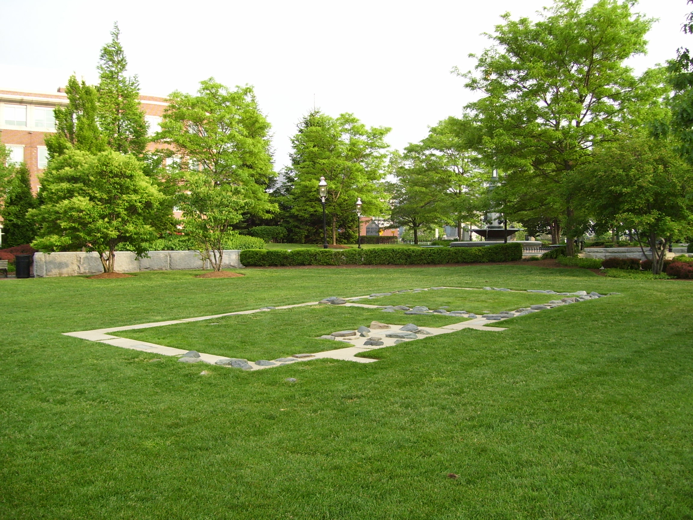 This is my 2008 photo of the 1629 John Winthrop Great House site in City Square in Charlestown, Massachusetts.